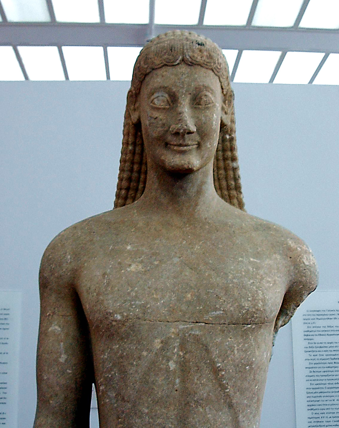 Same image as thebeskouros, but downloaded and cleanup in Photoshop, then reposted here. I assume it is from "commons" or on Wikipedia as a GFDL.3dnatureguy 18:32, 13 February 2006 (UTC)